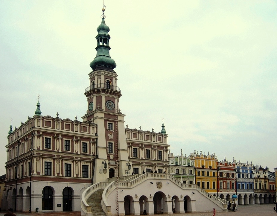 Town Hall in Zamość